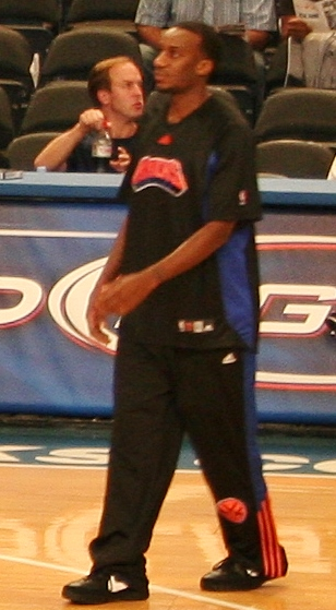 New York Knicks player Walker Russell Jr. warms up before a preseason game in October 2007.